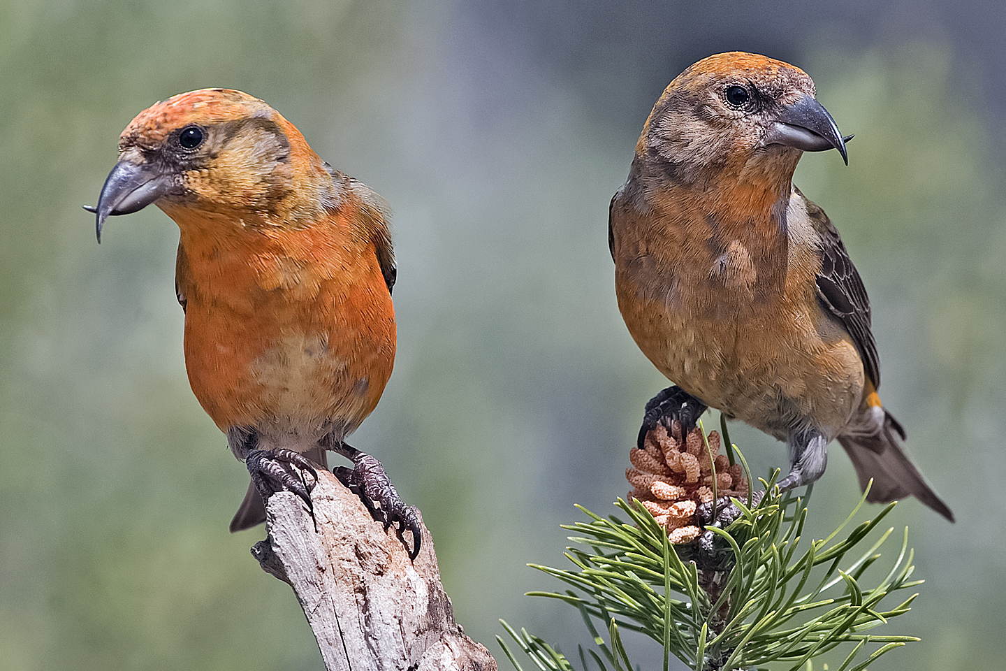 Red Crossbills (Male), Cabin Lake Viewing Blinds, Deschutes National Forest, Near Fort Rock, Oregon